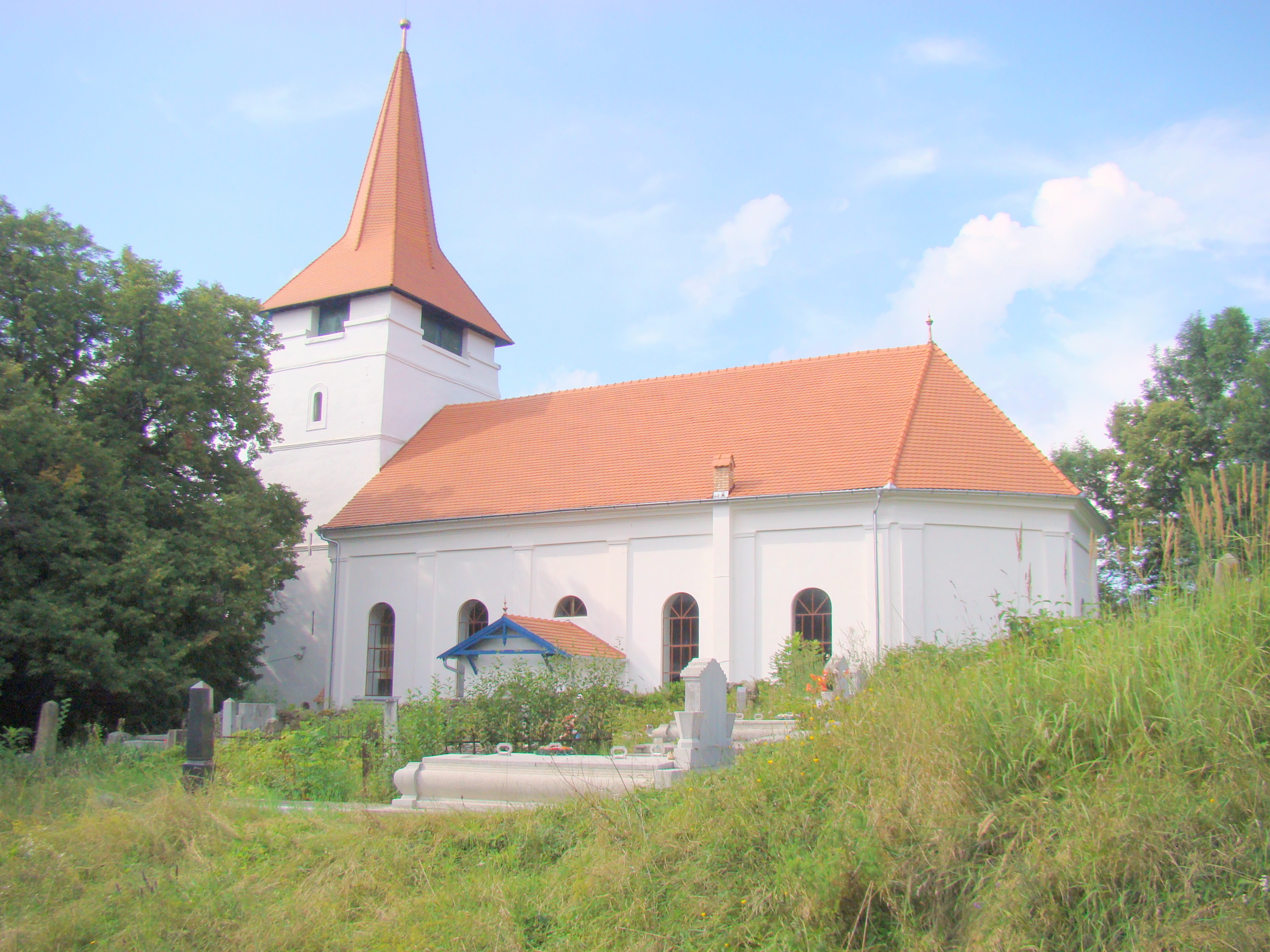 Reformed church in Bicfalău, Covasna County, Romania